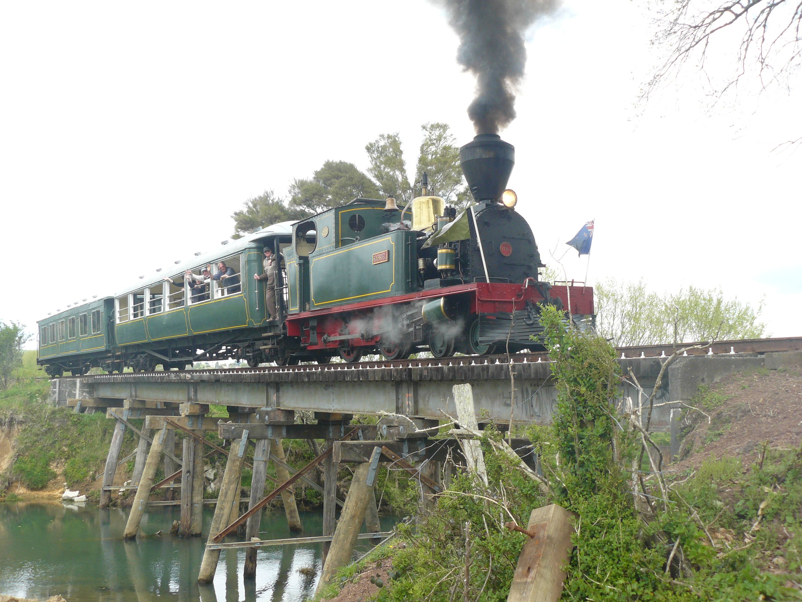 Gabriel the Steam Engine on Number 5 Bridge of the Bay of Island Vintage Railway, New Zealand